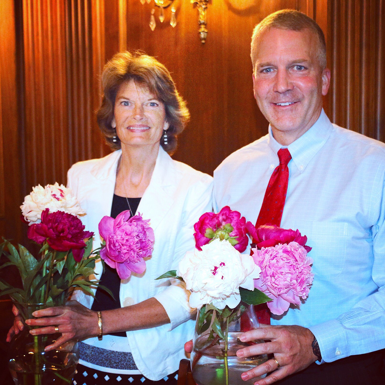 .@lisamurkowski & I couldn’t have been prouder 2 display beautiful Arctic #Alaska Peonies all the way from Interior!